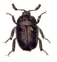 Cychramus variegatus, from Calwer's Käferbuch, Table 14, Picture 10. Taxonomy was updated to 2008, using mostly the sites Fauna Europaea and BioLib. Please contact Sarefo if the determination is wrong!